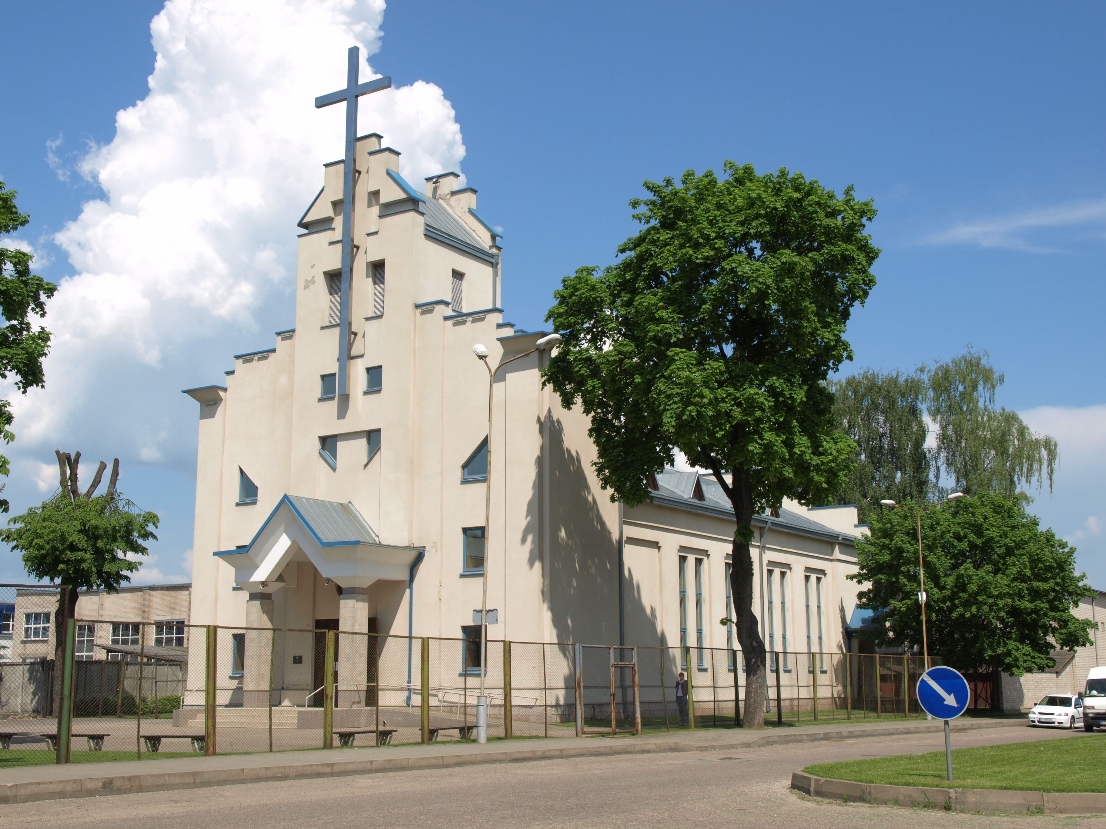 Alytus Saint Casimir church, Alytus, Lithuania